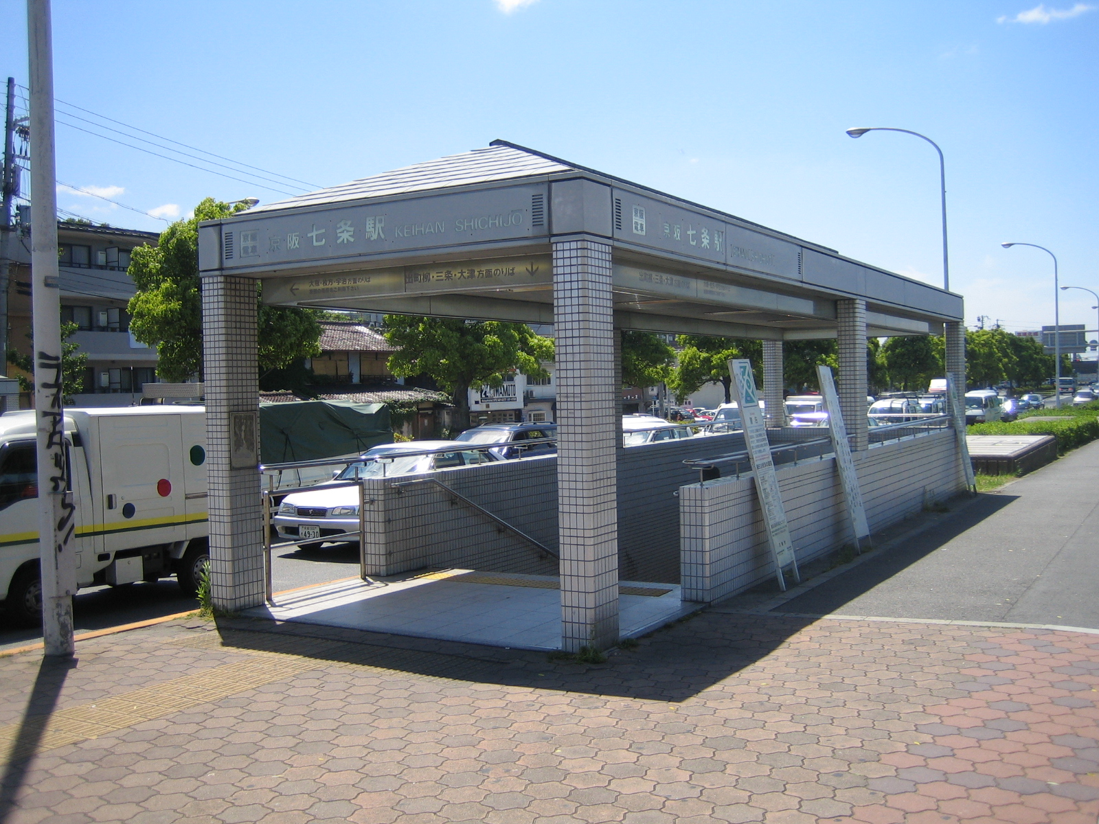 Keihan Shichijo station.